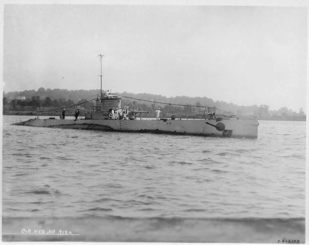 United States Navy submarine on the Thames River at New London, Connecticut.